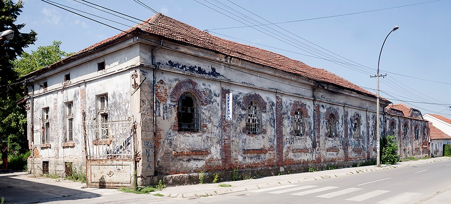 Textile factory Stamenković in Leskovac, around 1900.